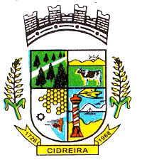 Coat of arms of the city of Cidreira, Rio Grande do Sul, Brazil.